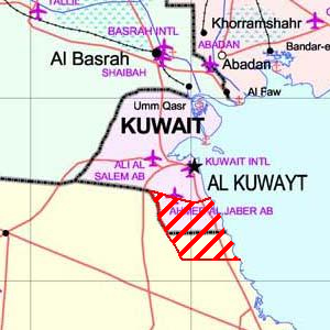 Right map for the article Saudi-Kuwaiti neutral zone.